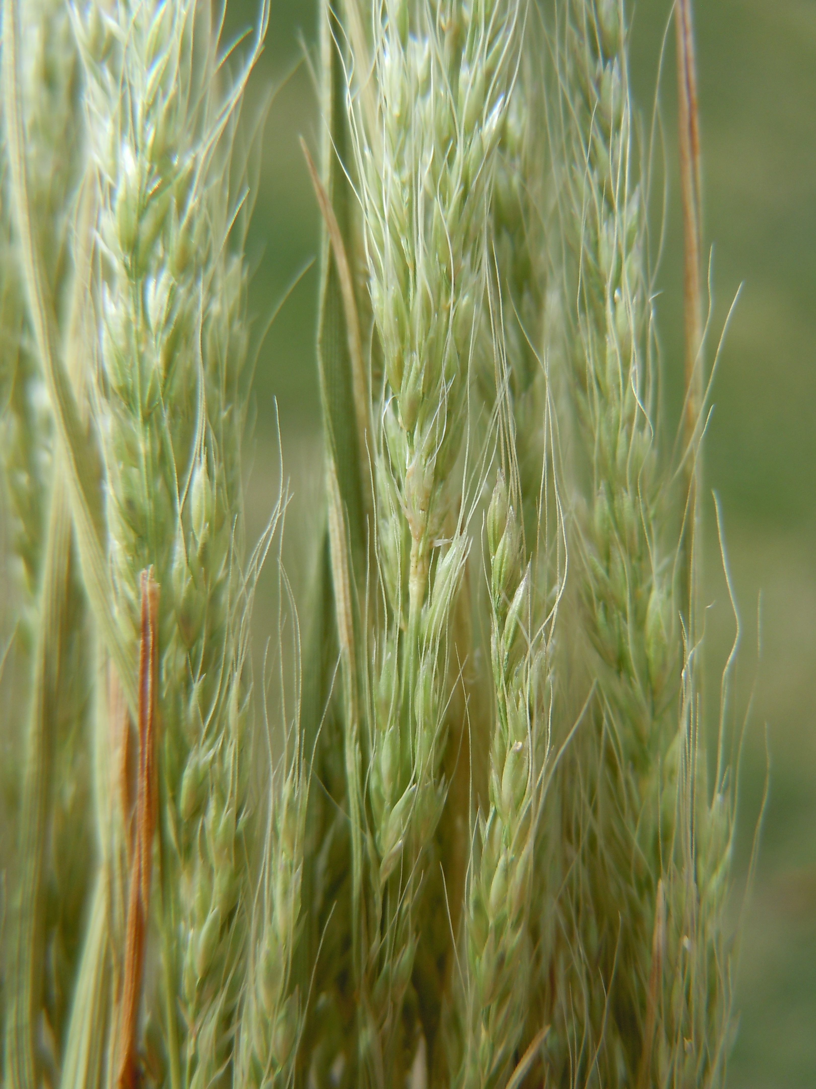 Apera is one of the few oatgrasses to have awns arising from near the tip of the lemma.